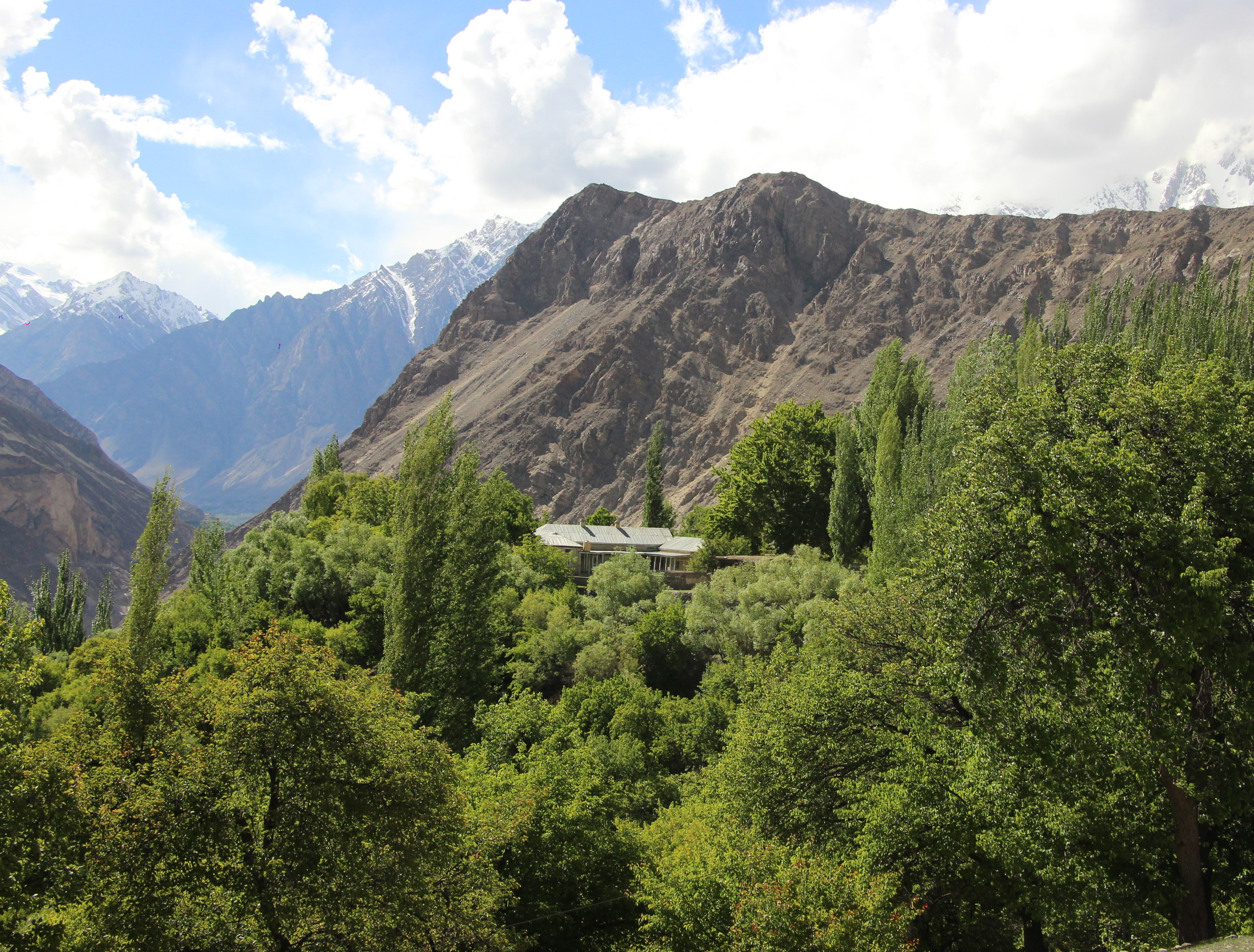 It is the Royal Palace of Nagar Khas in a summer surrounded by a vast garden of Apricot and a lot of other exotic trees. The Palace has breathtaking views of Spantik (The Golden Peak), Nagar Khas, River Nagar and Lady Finger-Hunza.